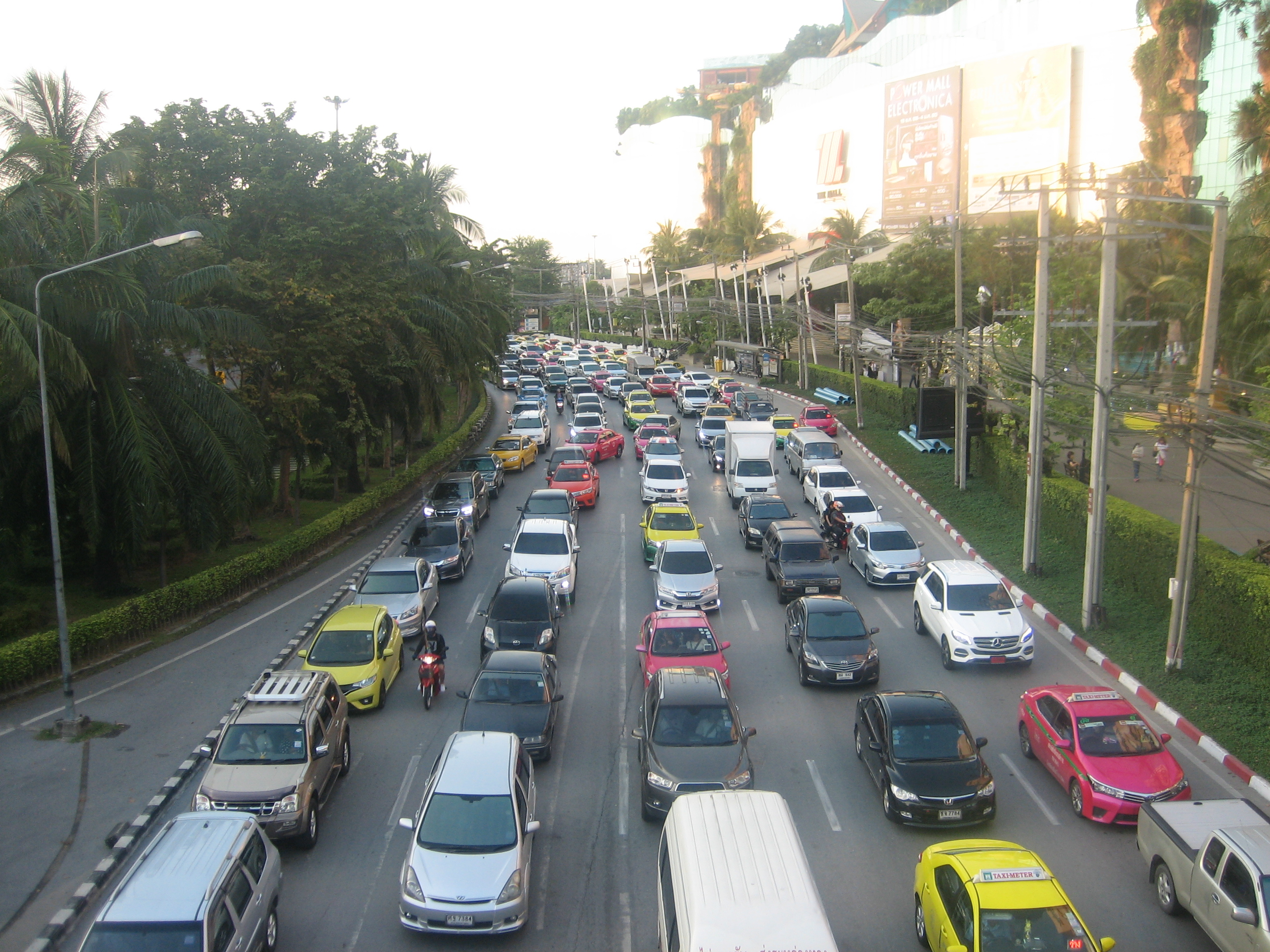 Car in Bangkok